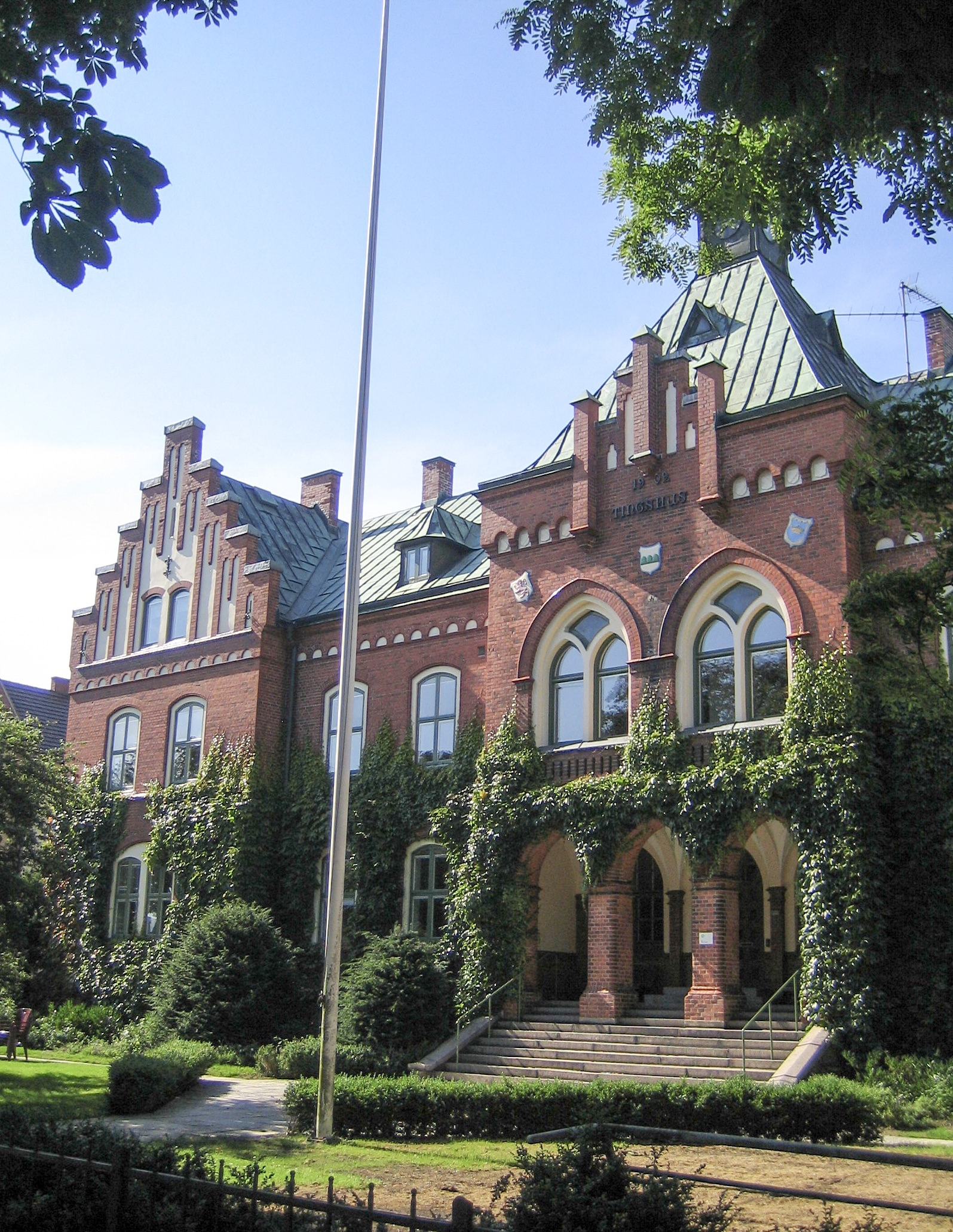 The court house in Ystad